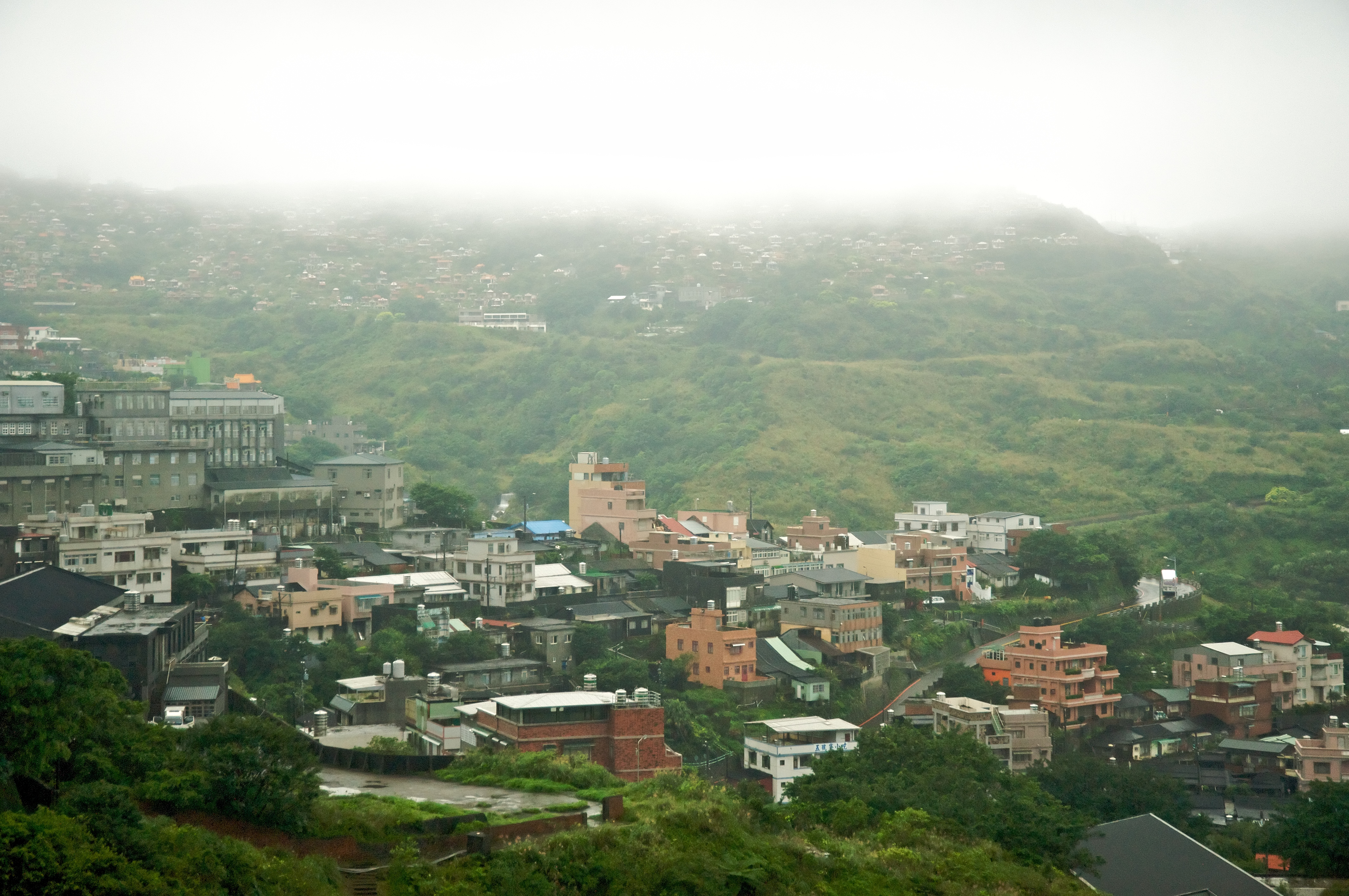 Thousands of tombs are strewn all over the mountain in the far background at Jinguashi